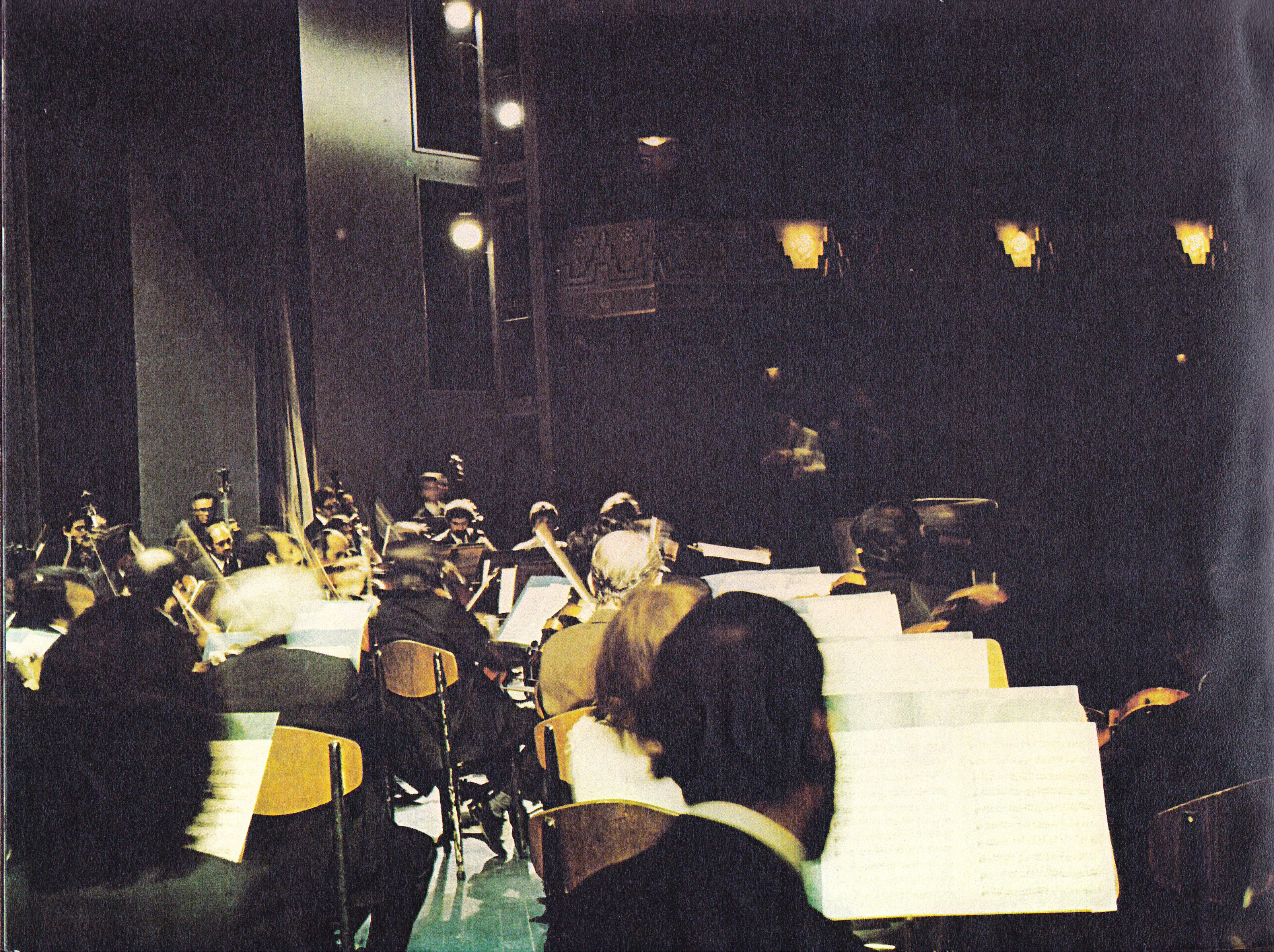 Tehran philharmonic orchestra, Iran